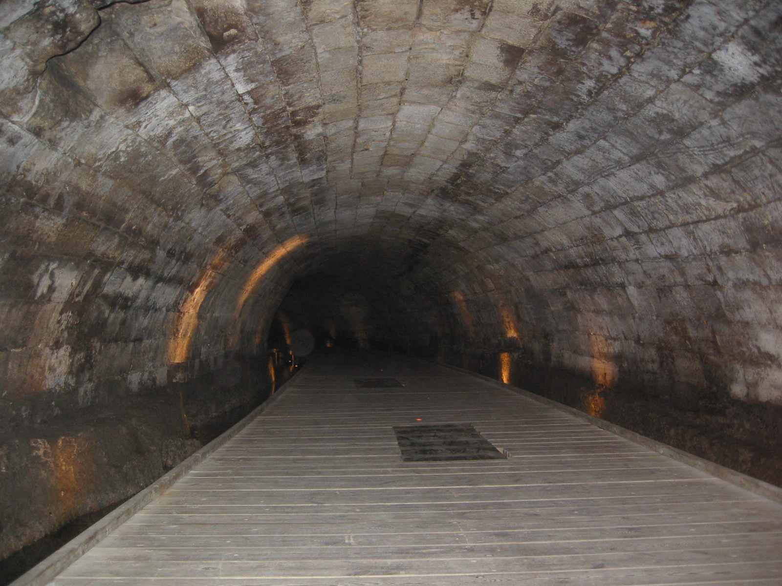 Templar tunnle in Acres, Israel